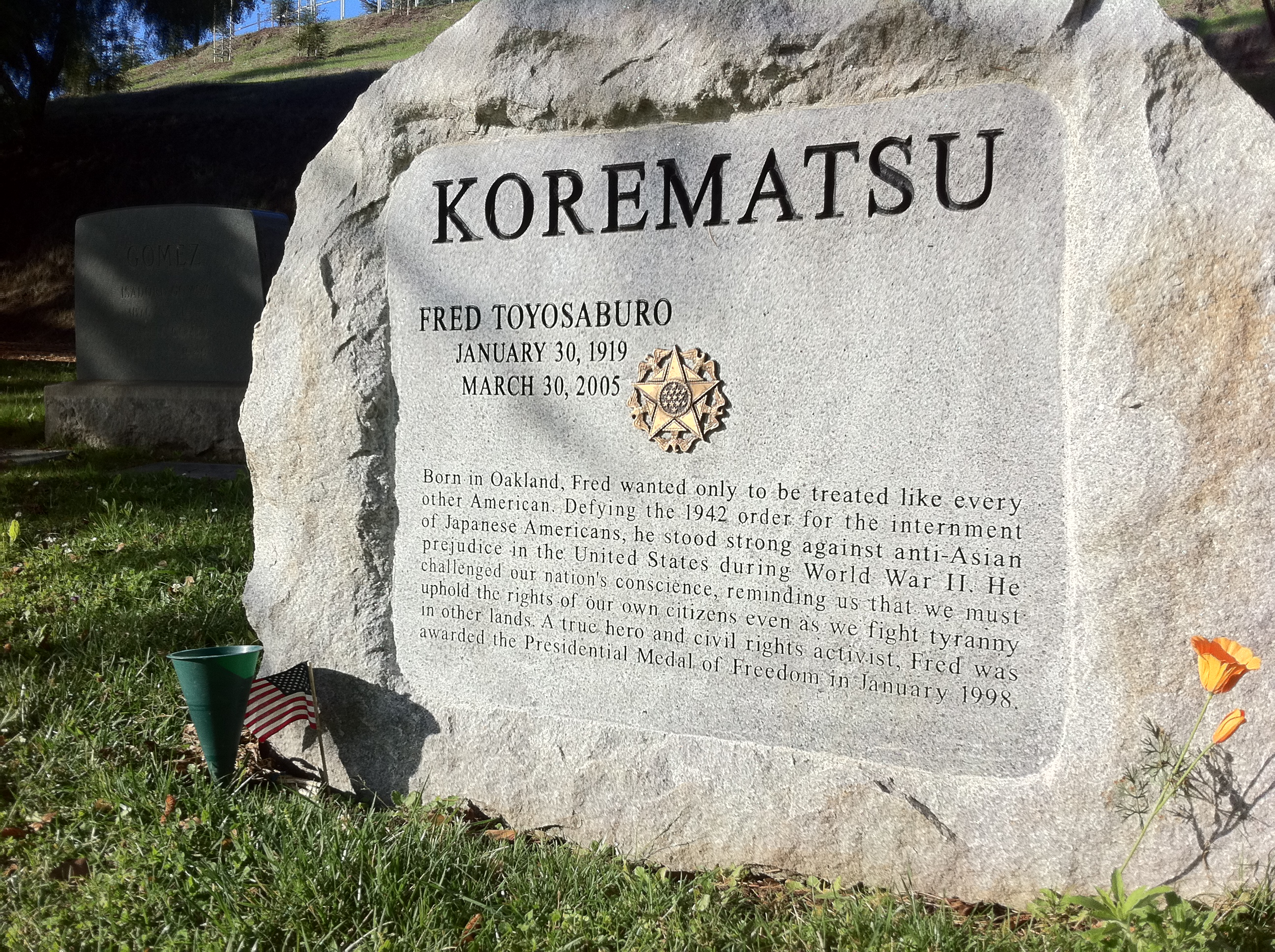 Gravestone of Fred Korematsu at Mountain View Cemetery, Oakland, CA